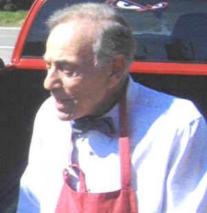 Herchell Gordon Lewis (right) and Rock Savage on the set of Chainsaw Sally.